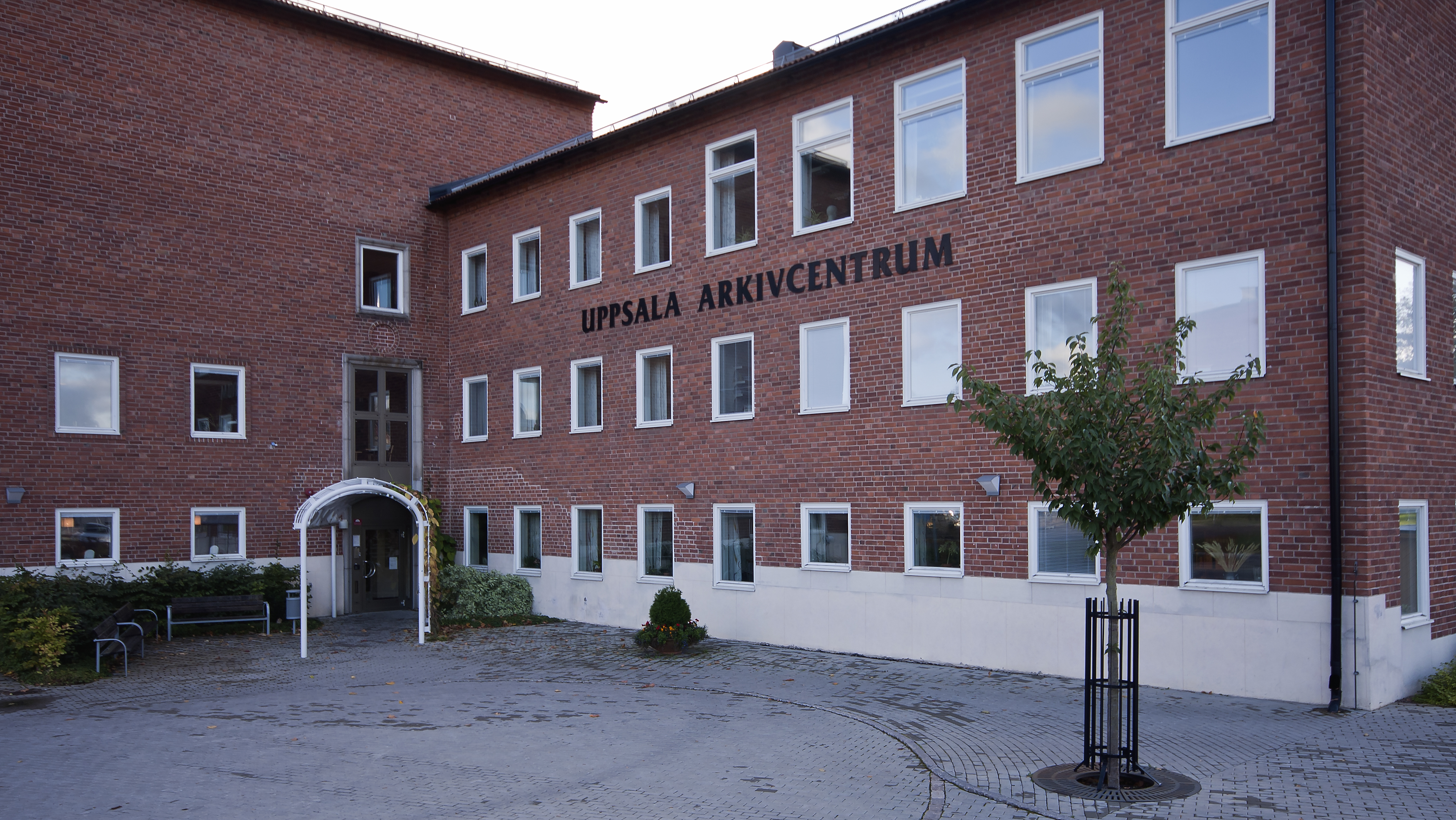 the Uppsala regional state archive in Uppsala, Sweden.